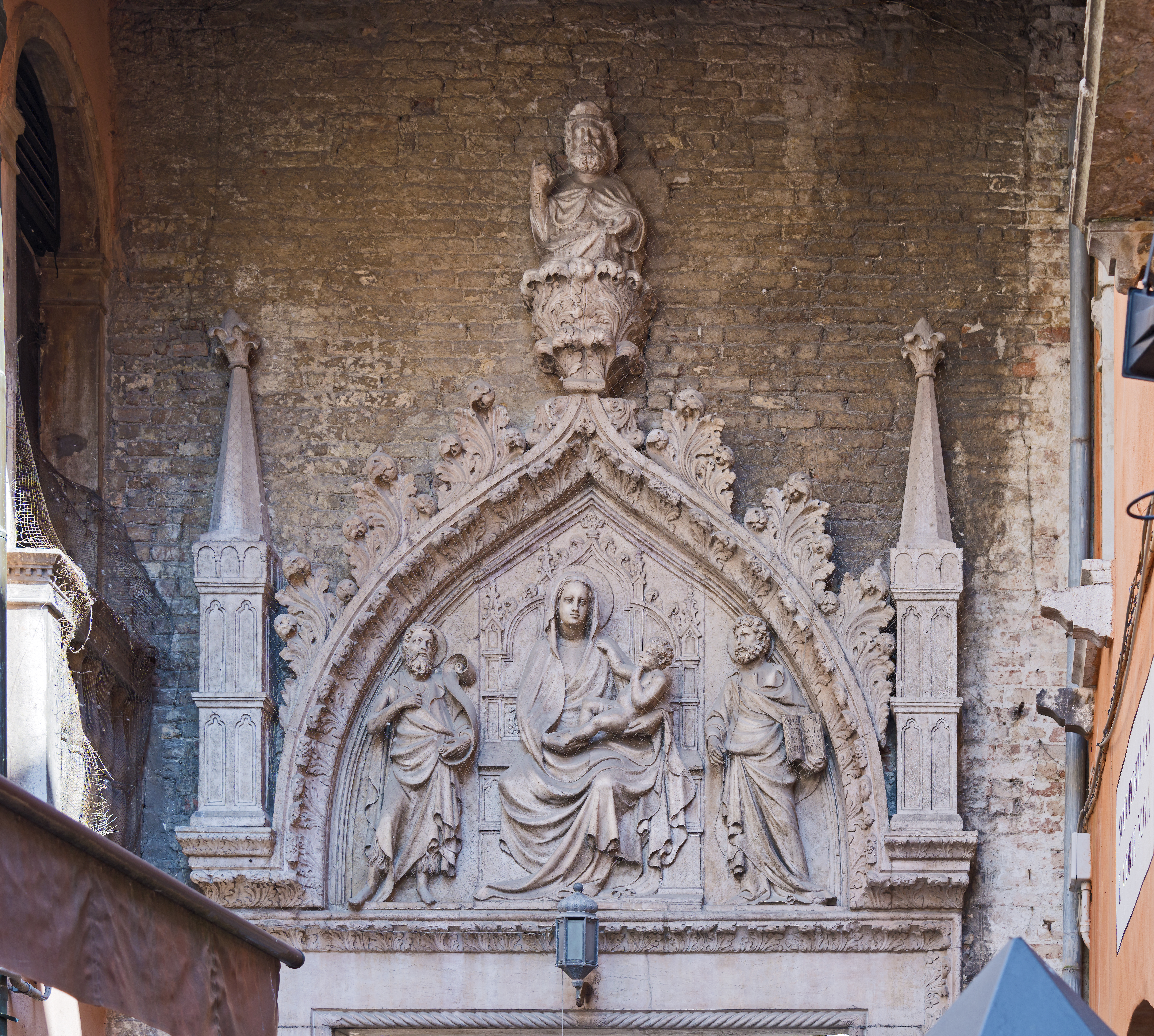 Church of San Provolo - The Gothic doorway by Bartolomeo Bon, flanked by two slender towers, with the center, the Virgin on a throne decorated with the Child on her lap. On each side of the throne, greatly reduced in size, left St. John the Baptist, son of Zacharias, and right, Saint Mark the Evangelist. The top of the arch is decorated with acanthus leaves and decorated with the bust of Zacharias.